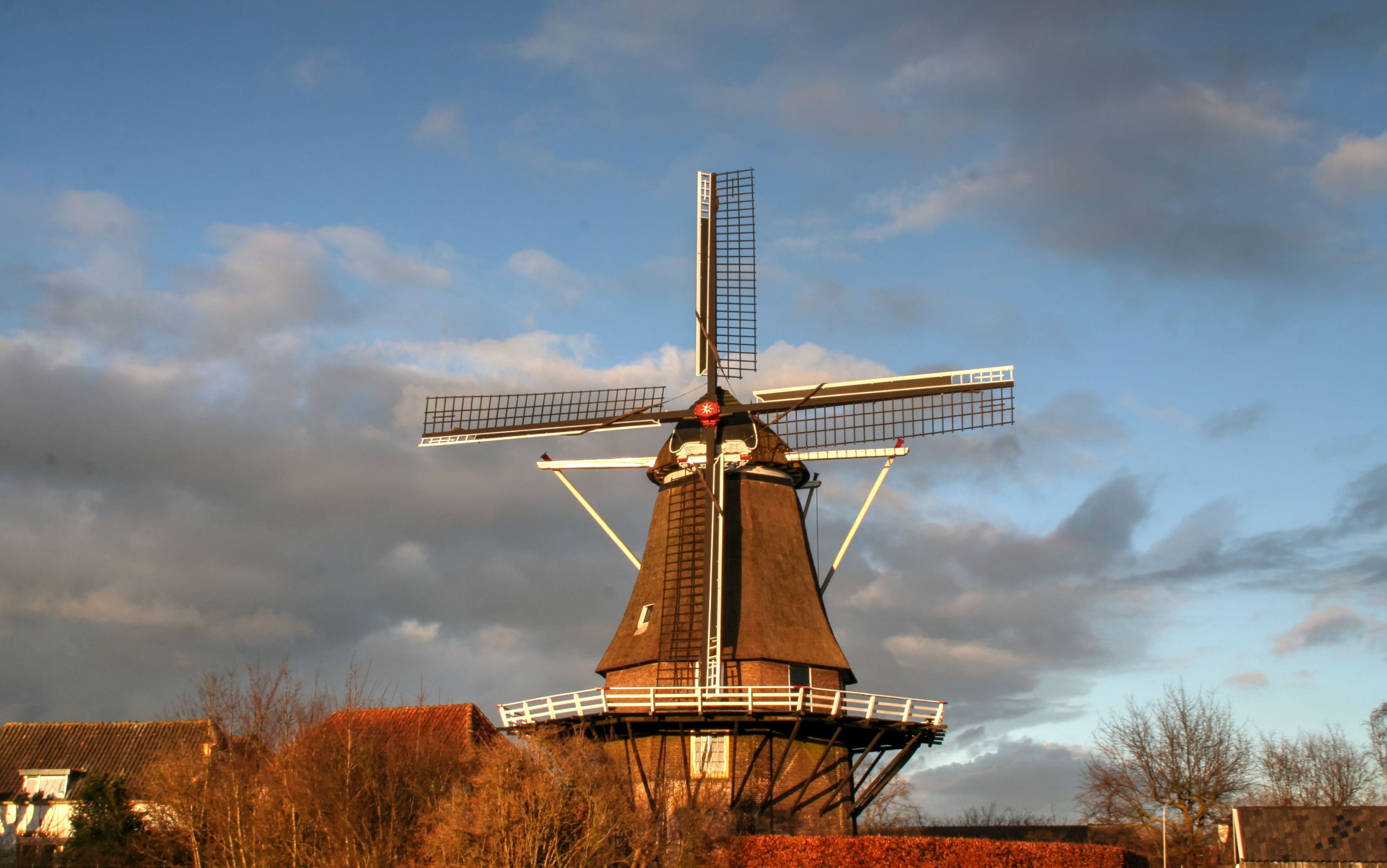 Wiekenactie De Zwaluw